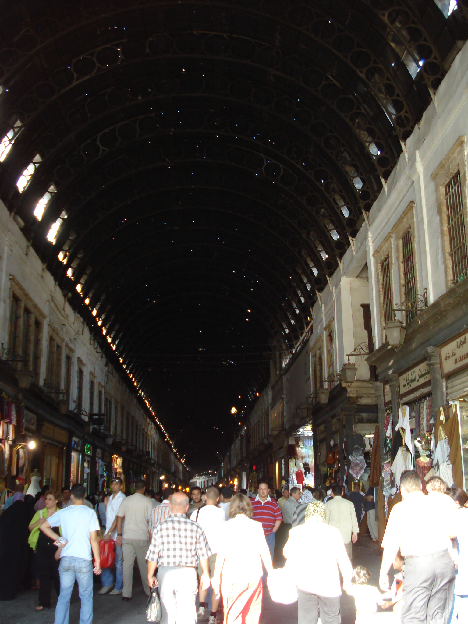 Al Hamidiyeh souk,Damascus